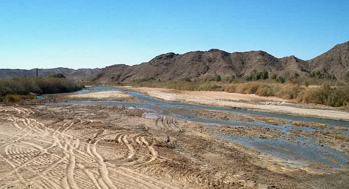 Gila River just downstream from the US Highway 95 bridge, (northeast of Yuma, Arizona).The south region of the small Laguna Mountains (Arizona) are at photo right. The Gila River is coursing through a short stretch of the also small, Gila Valley (Yuma County). The confluence with the Colorado River, is about 8-mi downstream.(The view is about a due-west view, with riparian brush, Tamarisk, as well as some Tumbleweed plants, growing to maximum heights, and also some maximum height growth of Quailbush (Arizona-California mostly, northwest Mexico), Artriplex lentiformis.